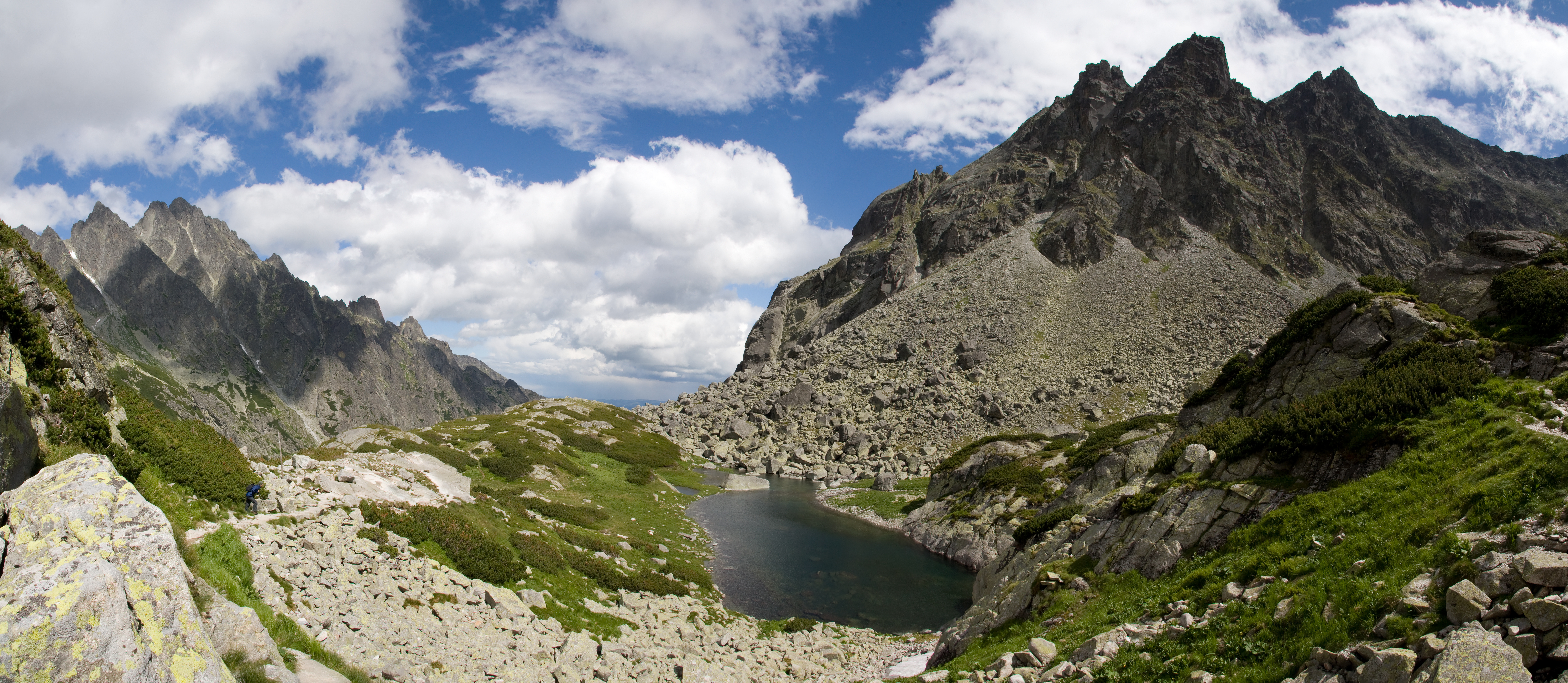 Vareškové pleso — an alpine lake in the Veľká Studená dolina (valley) of the High Tatra Mountains, within Tatra National Park—Slovakia.